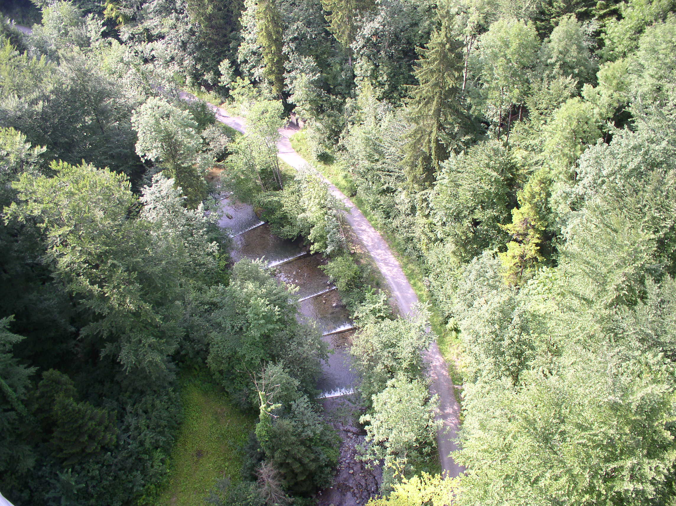 Description: Lorze im Lorzentobel, fotografiert von der Lorzentobelbrücke. Source: photo taken by me, July 2005 Photographer: Baikonur